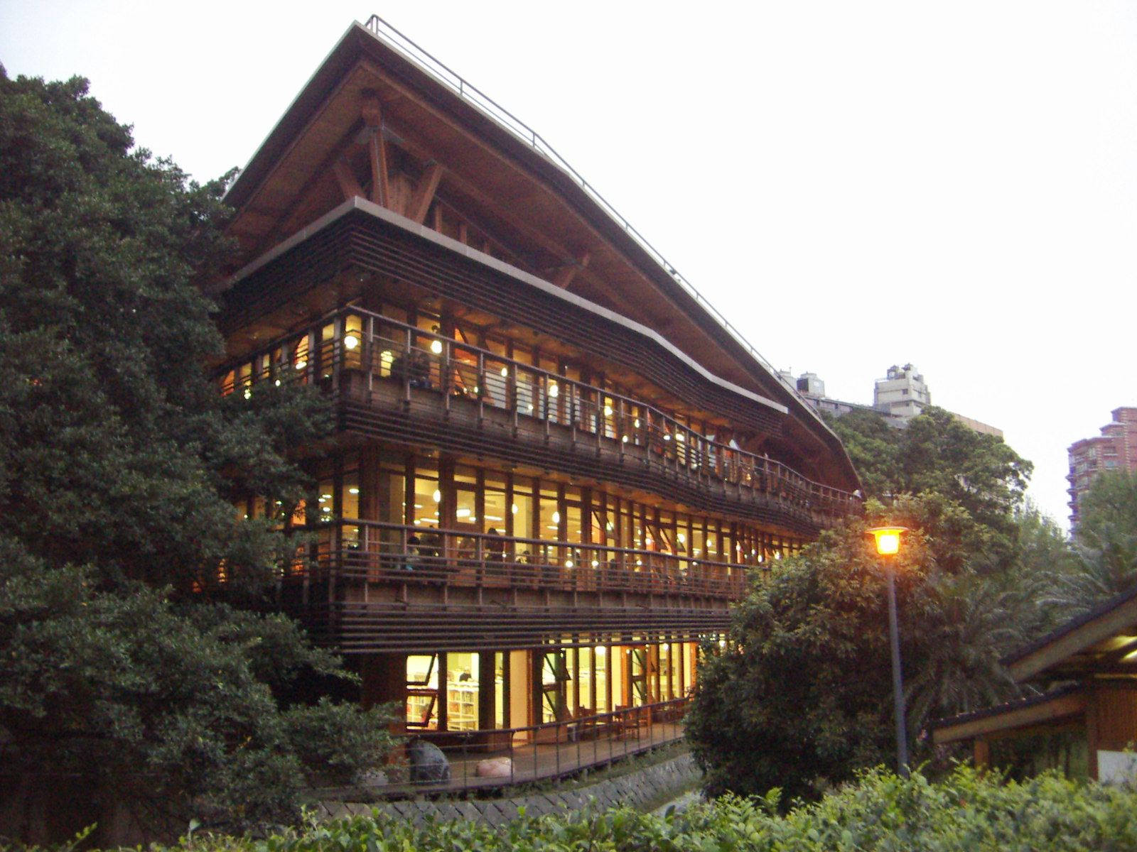 Beitou Branch, Taipei Public Library.